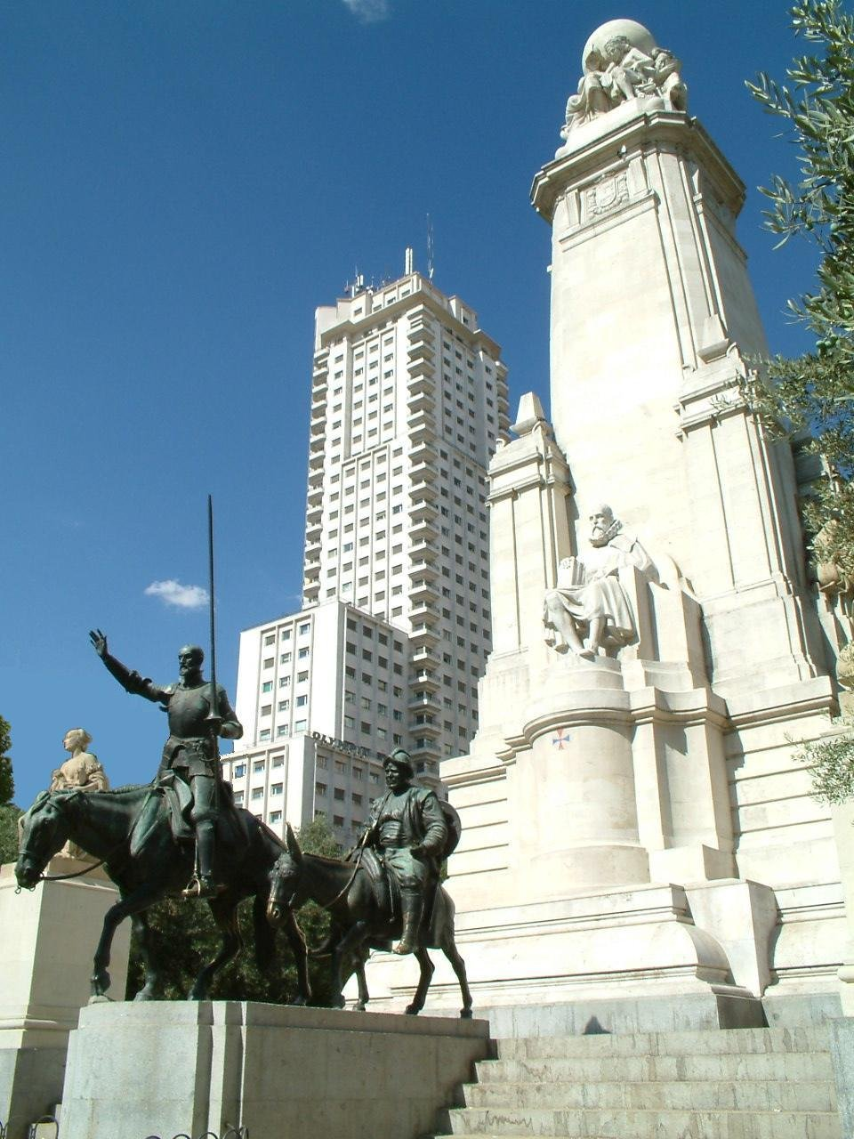 in Madrid, Plaza de España; Monument to Miguel de Cervantes